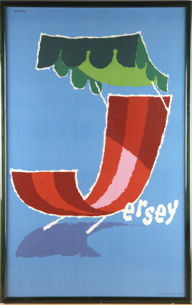 Jersey deckchair poster - advertising for Jersey tourism by Abram Games. Jersey Tourism, the tourism agency of the States of Jersey, has placed a selection from its advertising archive online at Flickr under CC licences: It further states there: "Jersey Tourism is part of the States of Jersey. These images are provided freely, without copyright restrictions and no royalties are payable."